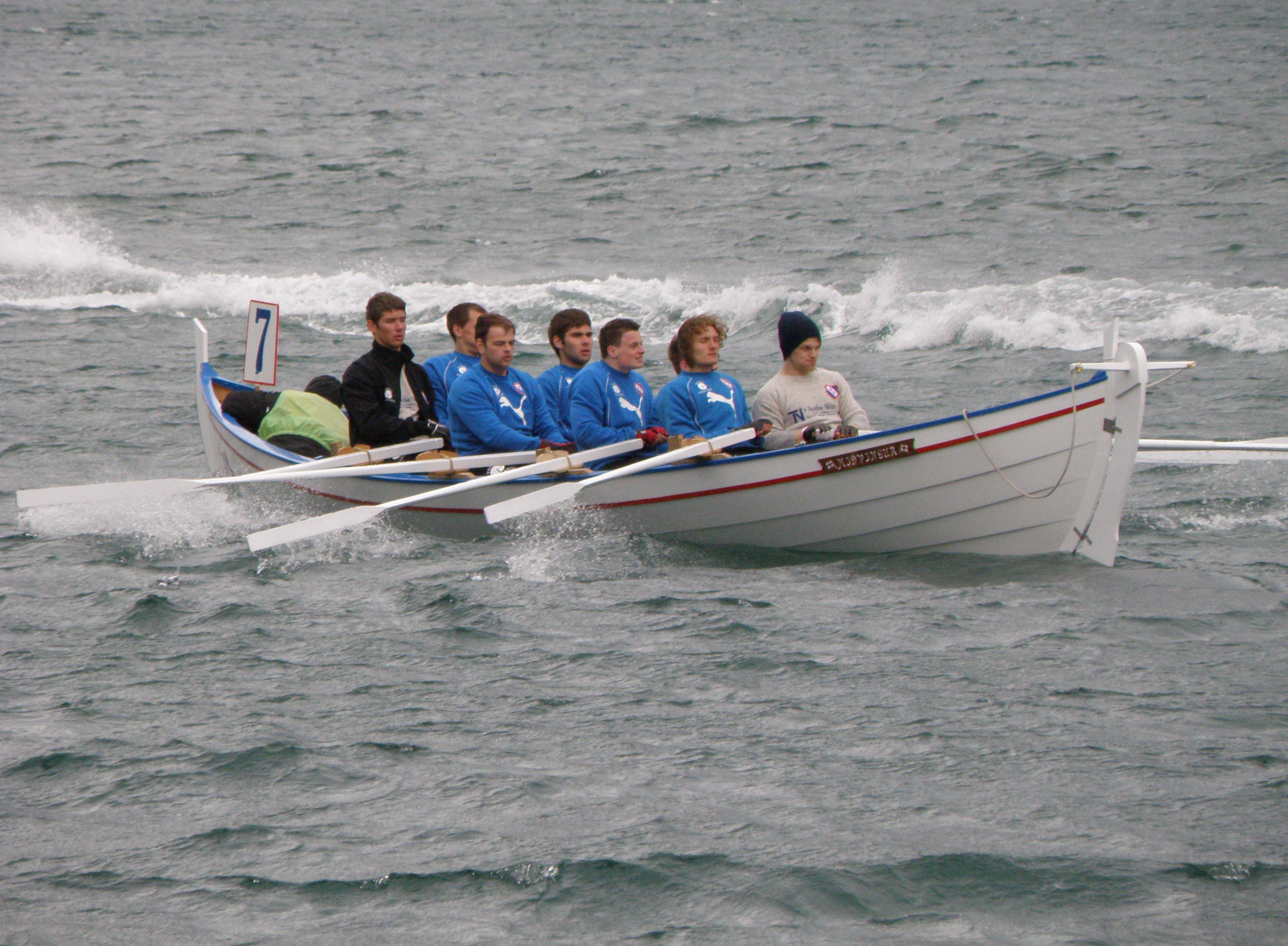 Miðvingur is a Faroese rowing boat, a "8-mannafar". It belongs to the rowing club in Miðvágur, which is called Miðvágs Róðrarfelag. This photo was taken in Tvøroyri, Faroe Islands at the Joansoka boat race on 25 June 2011. Føroyskt: Miðvingur er ein kappróðrarbátur, eitt 8-mannafar. Tað er Miðvágs Róðrarfelag sum eigur Miðving.